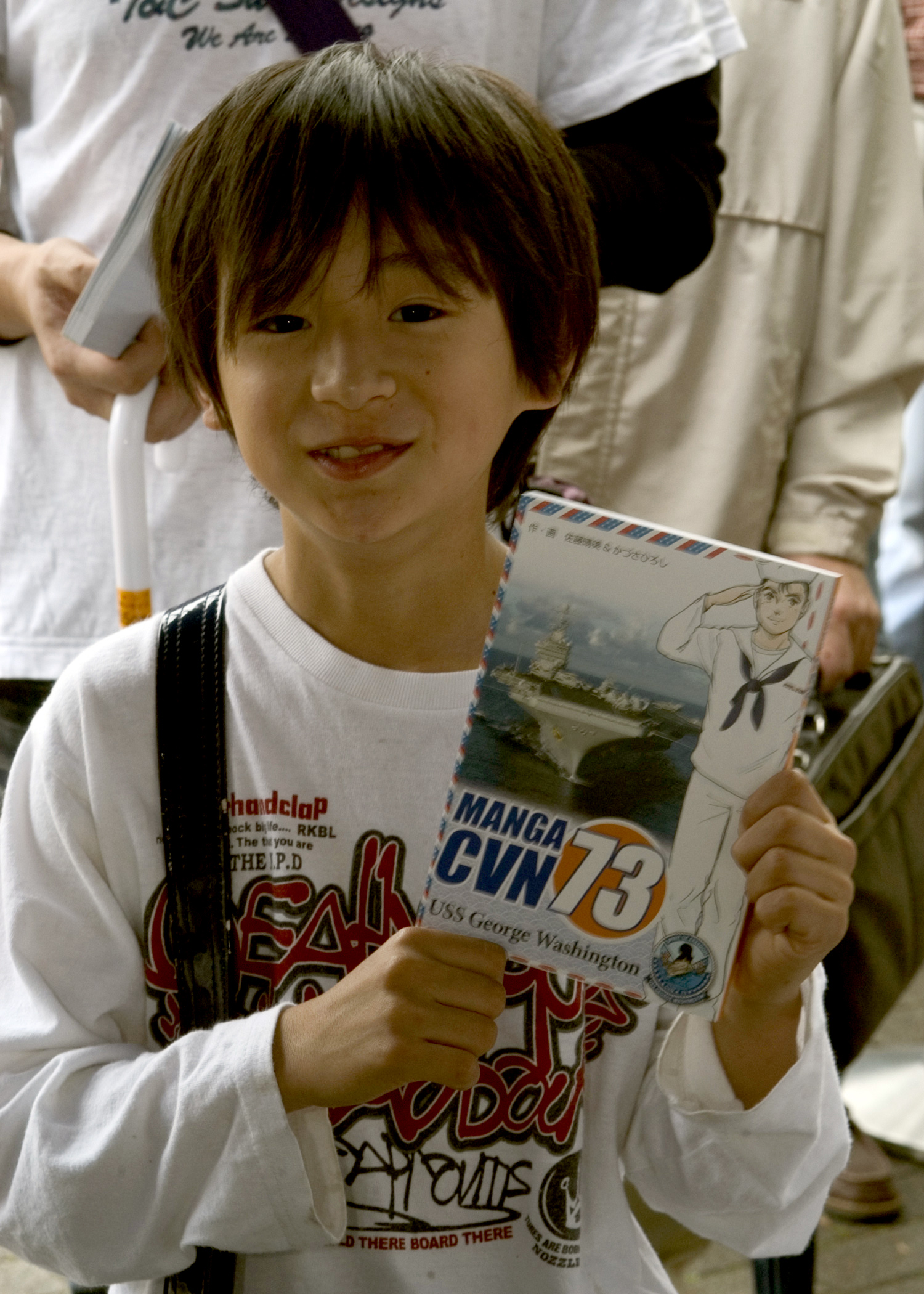 YOKOSUKA, Japan (June 8, 2008) A Japanese child holds up his copy of the manga "CVN 73" during the initial distribution of the comic book outside Commander Fleet Activities Yokosuka. The manga follows Jack Ohara, a fictitious Japanese-American stationed aboard USS George Washington (CVN 73), as he experiences life on the carrier and arrives for the first time in Japan. U.S. Navy photo by Mass Communication Specialist 3rd Class Matthew R. White (Released)